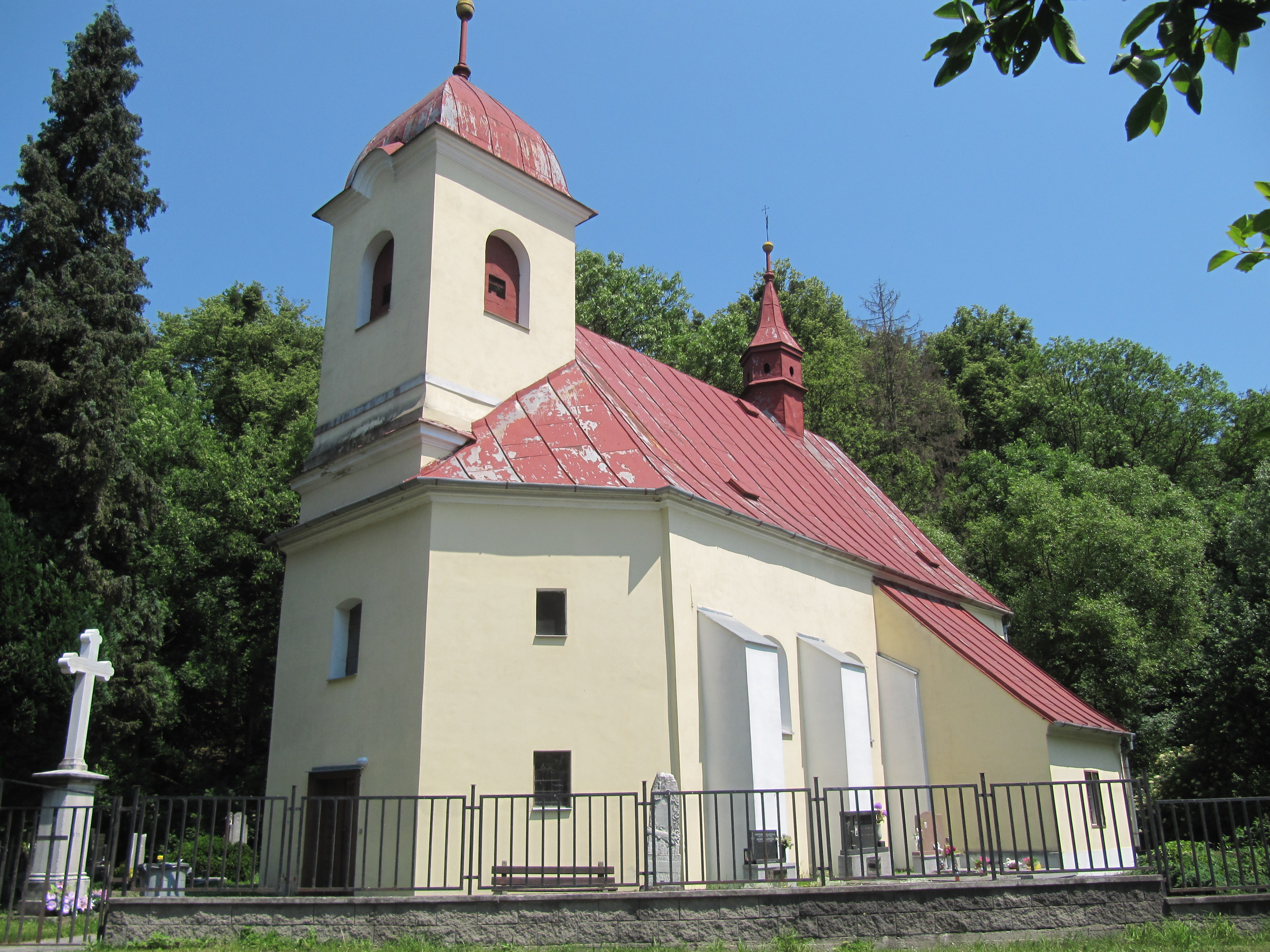 Fulnek, Nový Jičín District, Czech Republic, part Dolejší Kunčice.